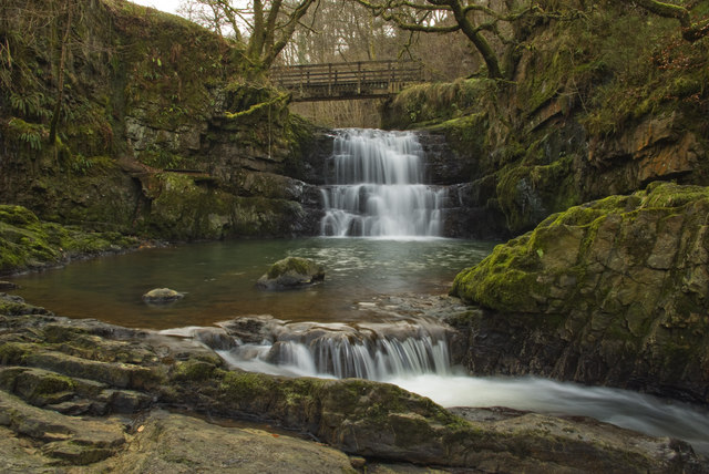 Waterfall on Afon Sychryd This waterfall is hidden away in the Gorge which the Afon Sychryd passes through